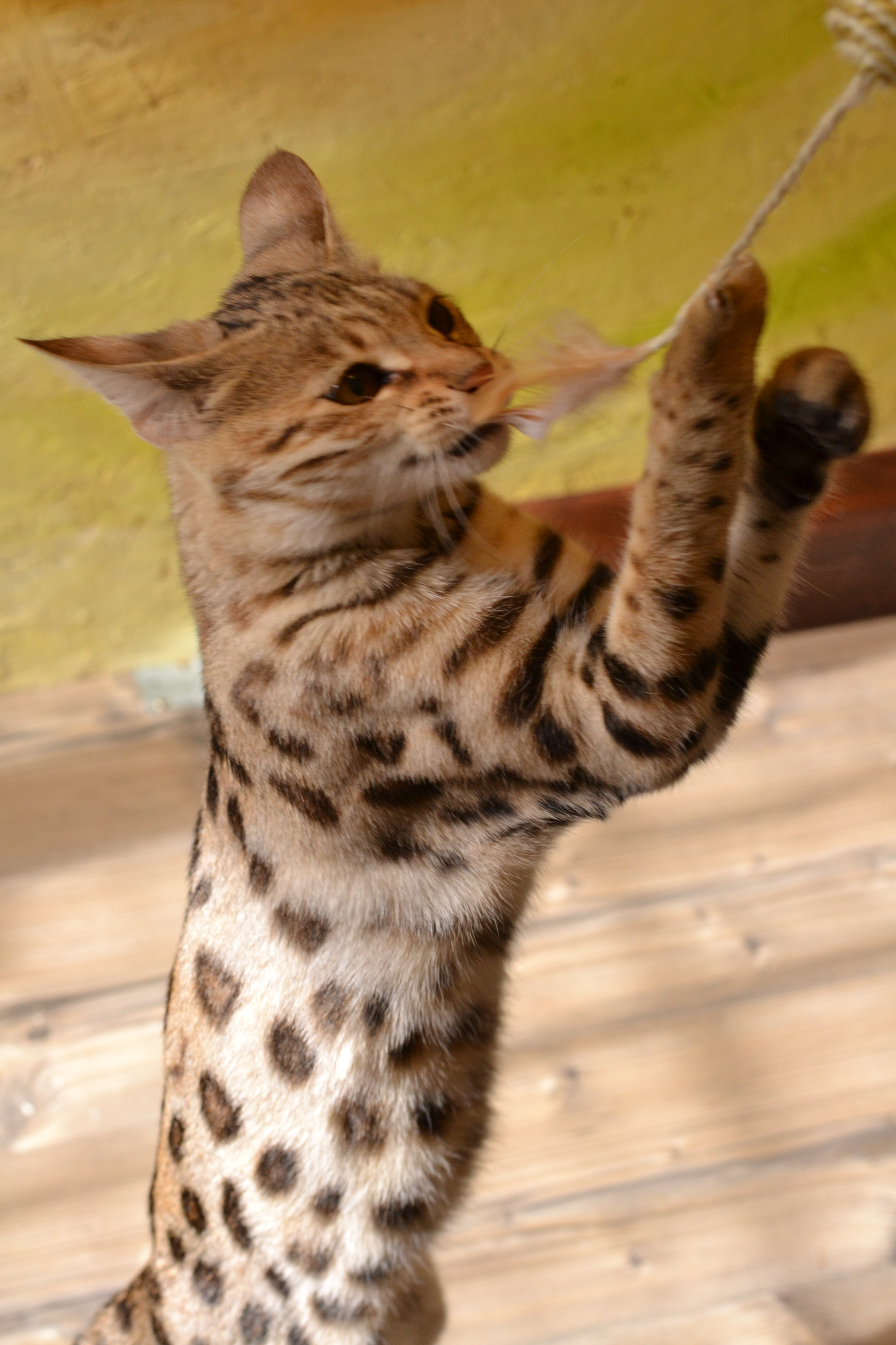 Savannah Cat (F2), 1 year old